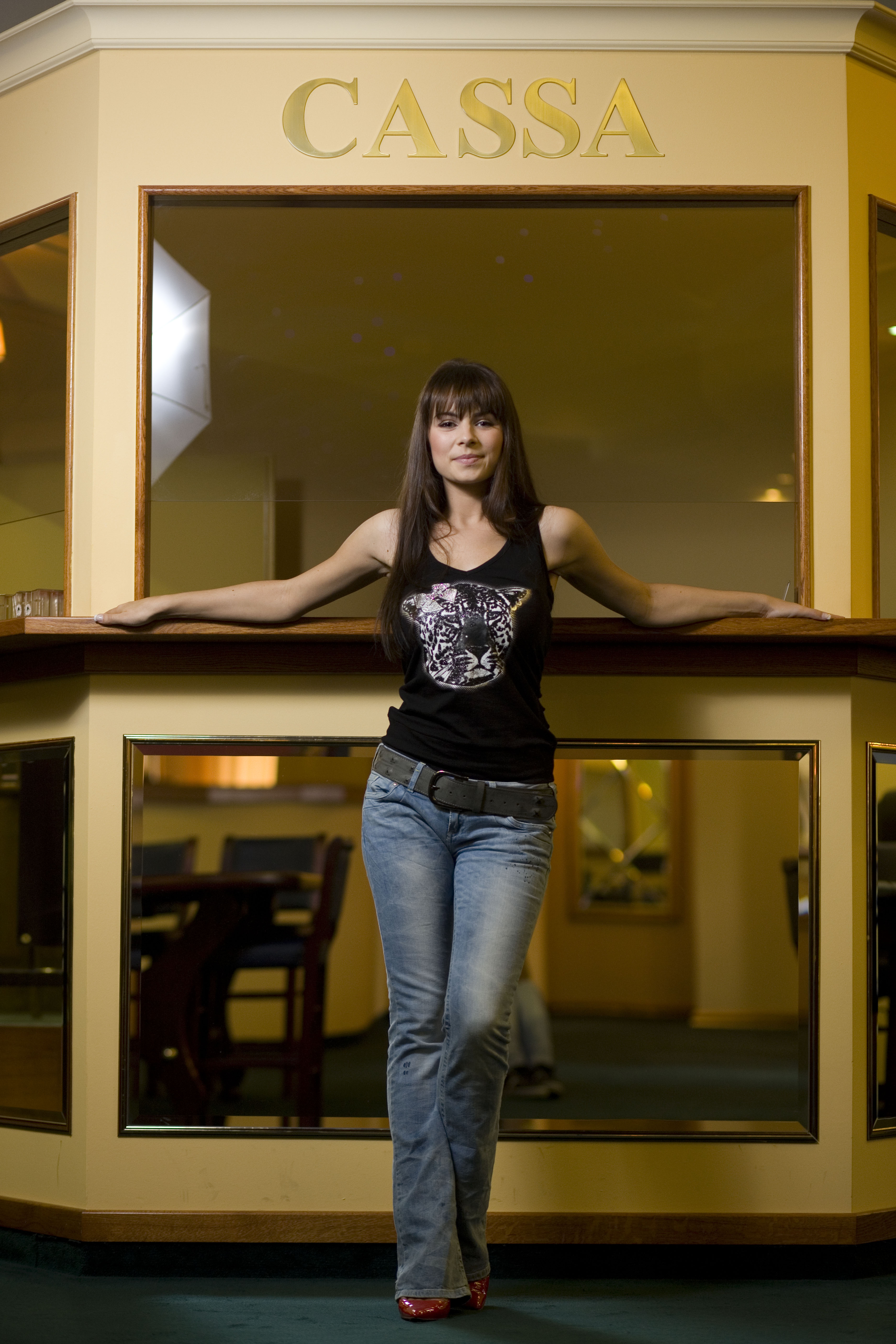 Tatjana Pašalić in a casino